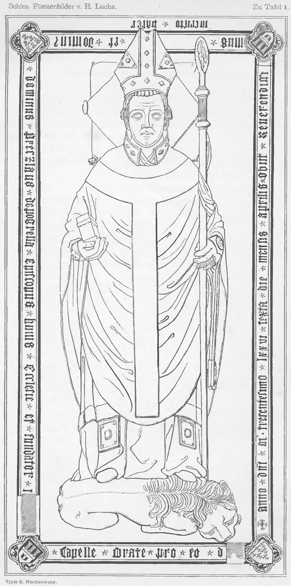 Tomb of Bishop “Preczlaus de Pogrella”